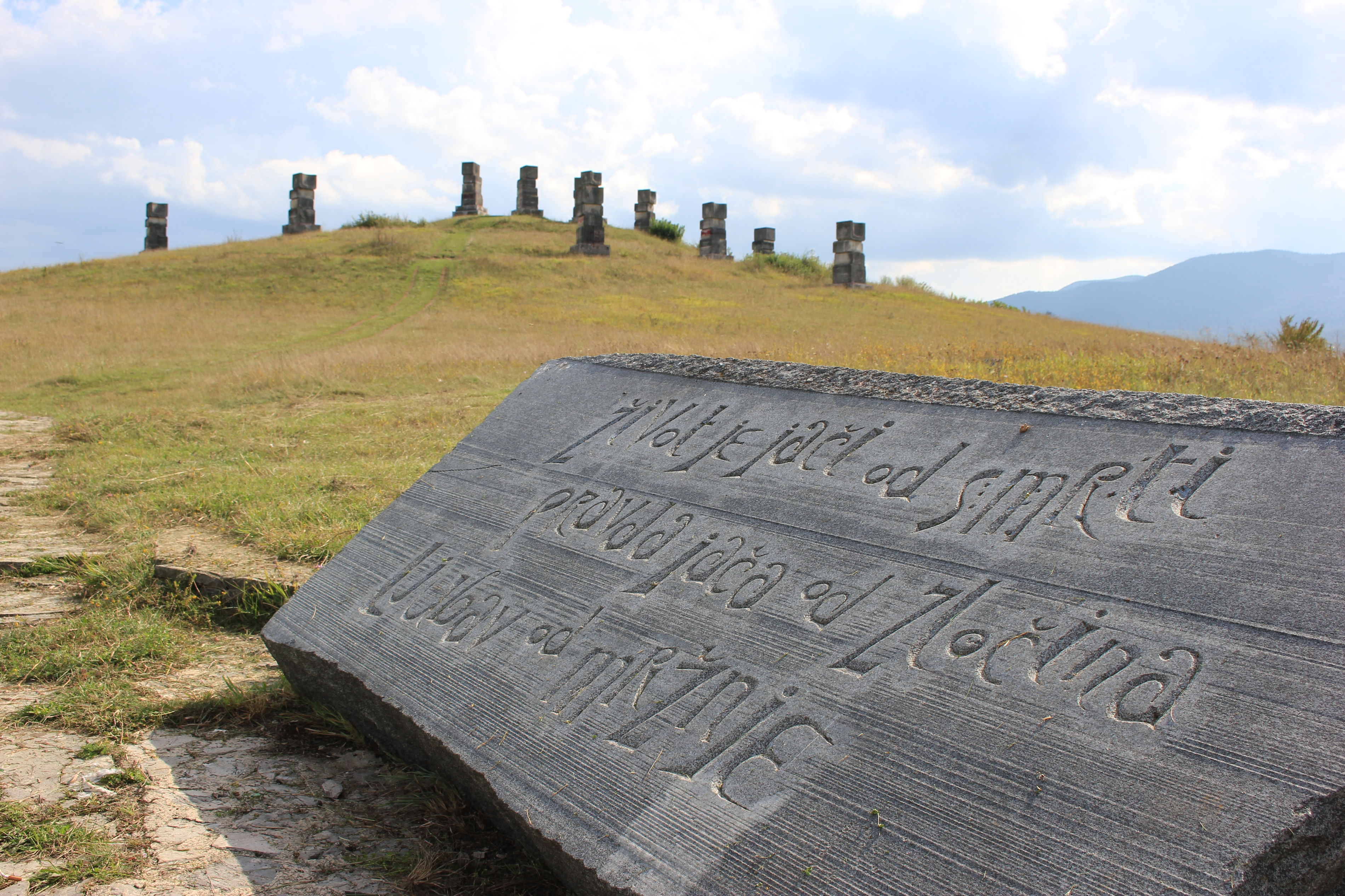 Memorial for the victims of Bihać Massacre in Garavice, Bosnia and Herzegovina.